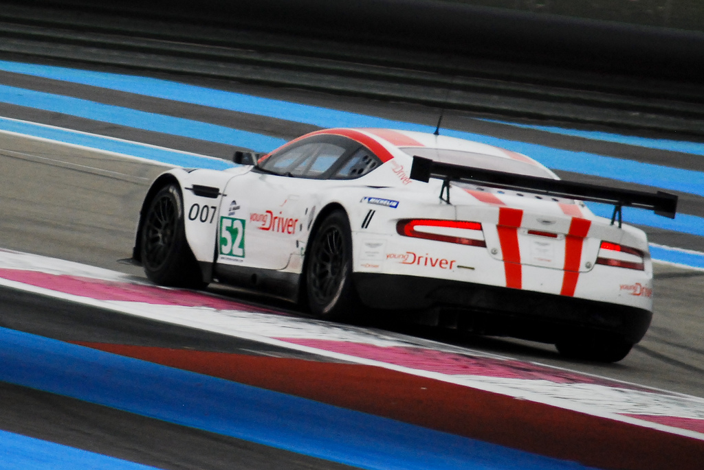 52 Young Driver AMR driven by Christoffer Nygaard.